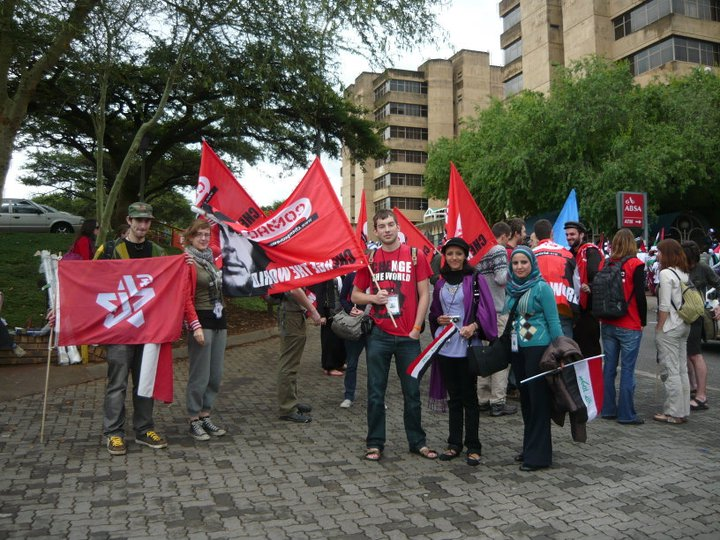 picture of the COMAC and CJB at the 17th World Festival for Youth and Students in South Africa